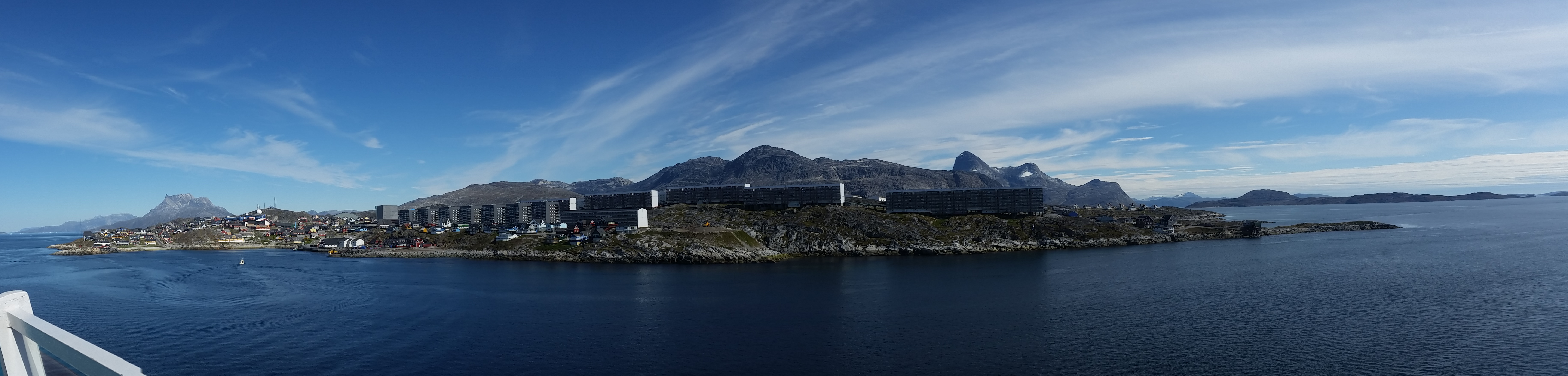 Panorama of Nuuk.